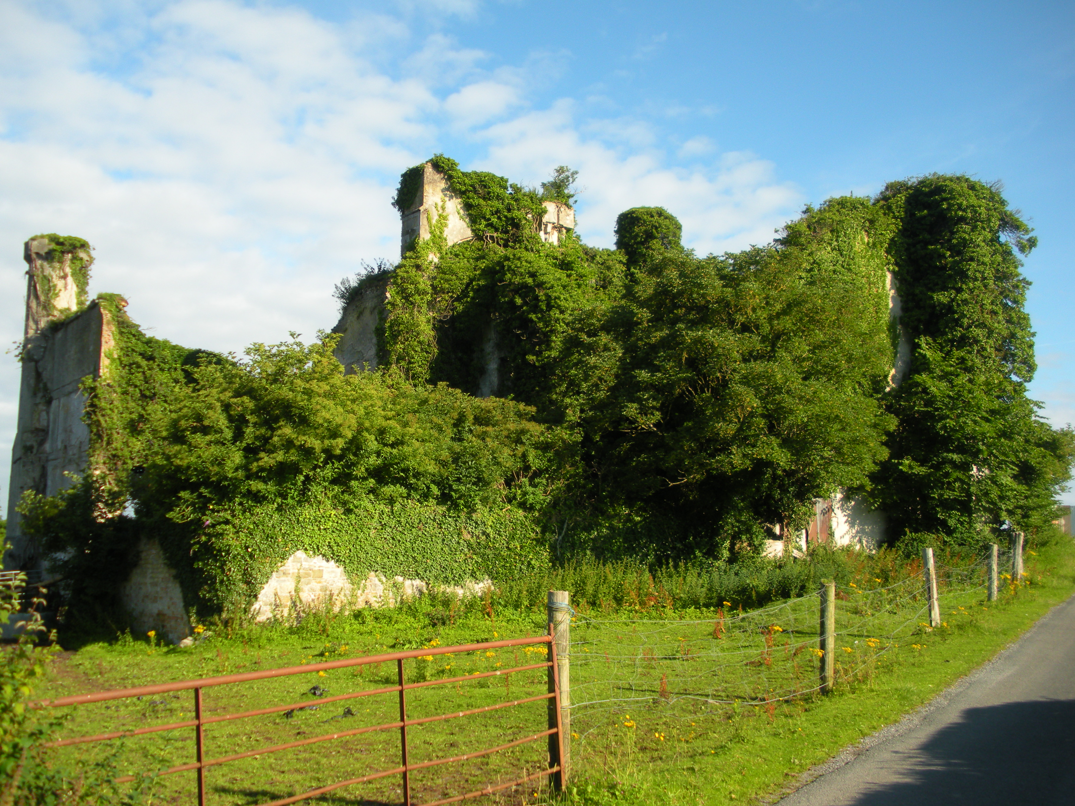 Moydrum Castle back view 1